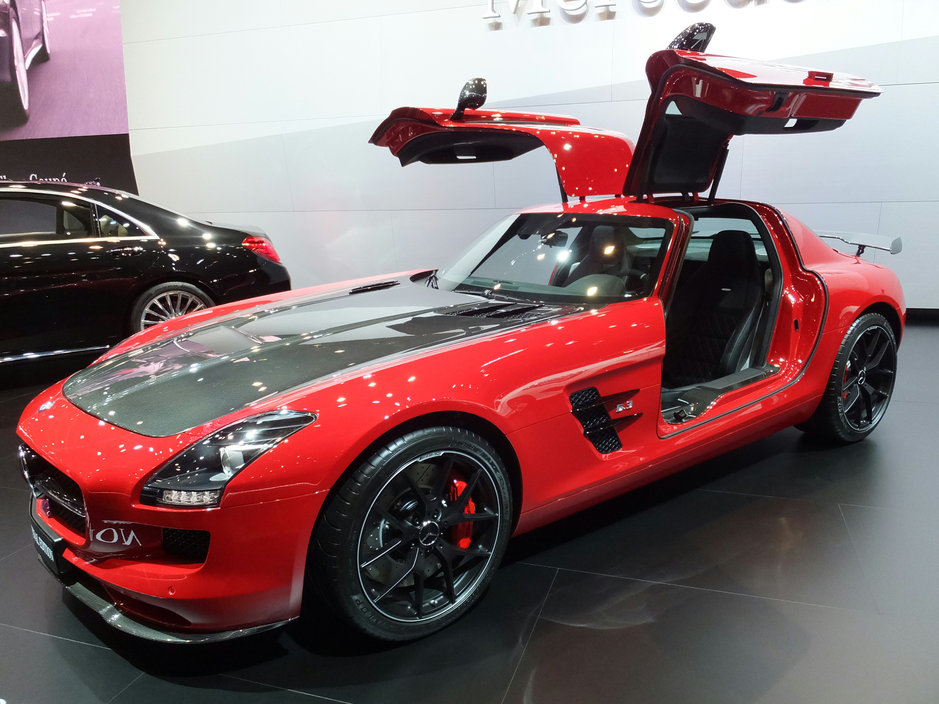 Mercedes-Benz, SLS AMG GT FINAL EDITION, Front perspective view, at Tokyo Motor Show 2013